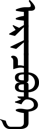 Signature of Ariq Böke.